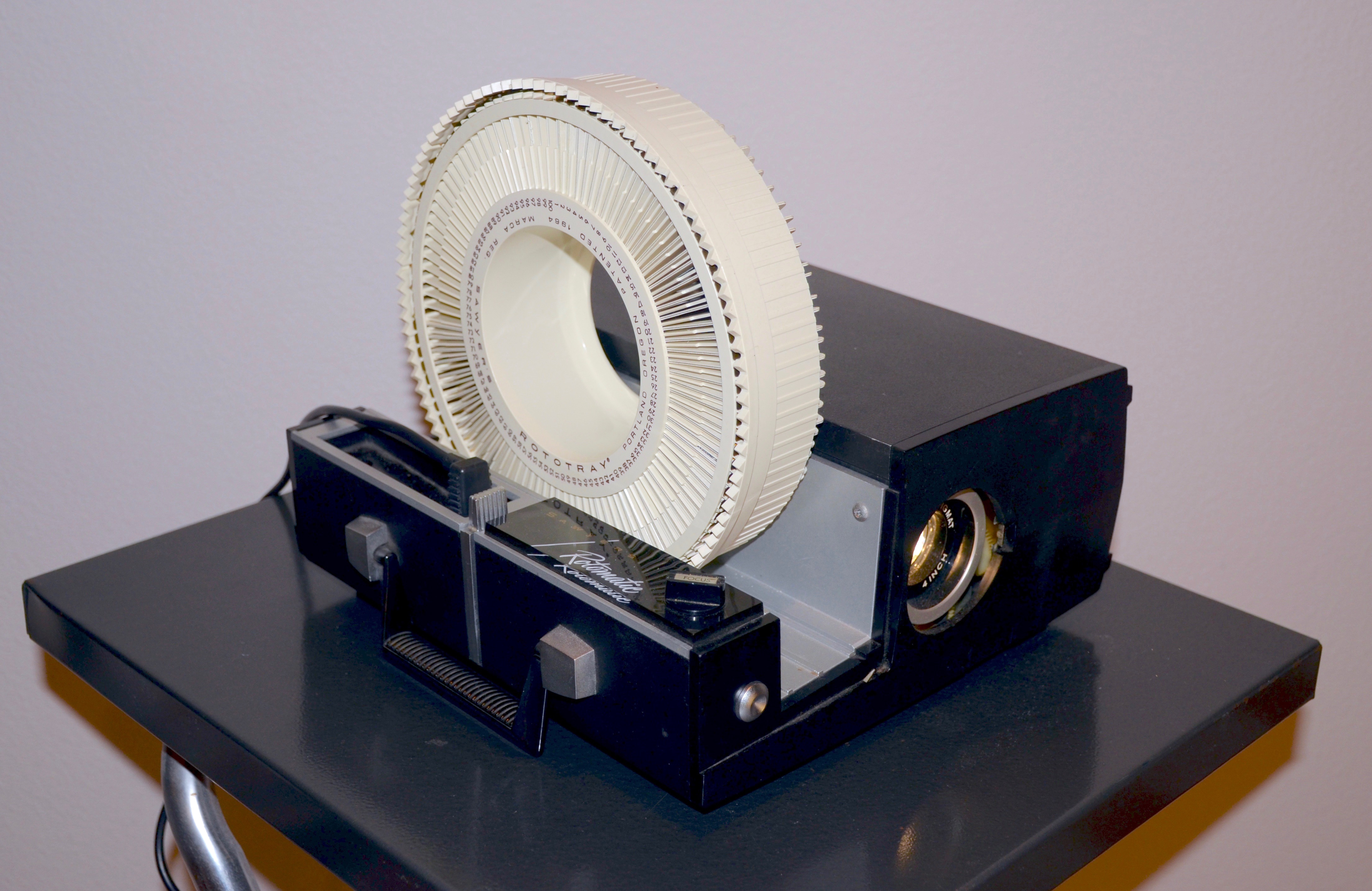 A Sawyer's Rotomatic 600 slide projector, loaded with a 100-slide tray (about three-fourths filled). This specific example was purchased new in August 1964.